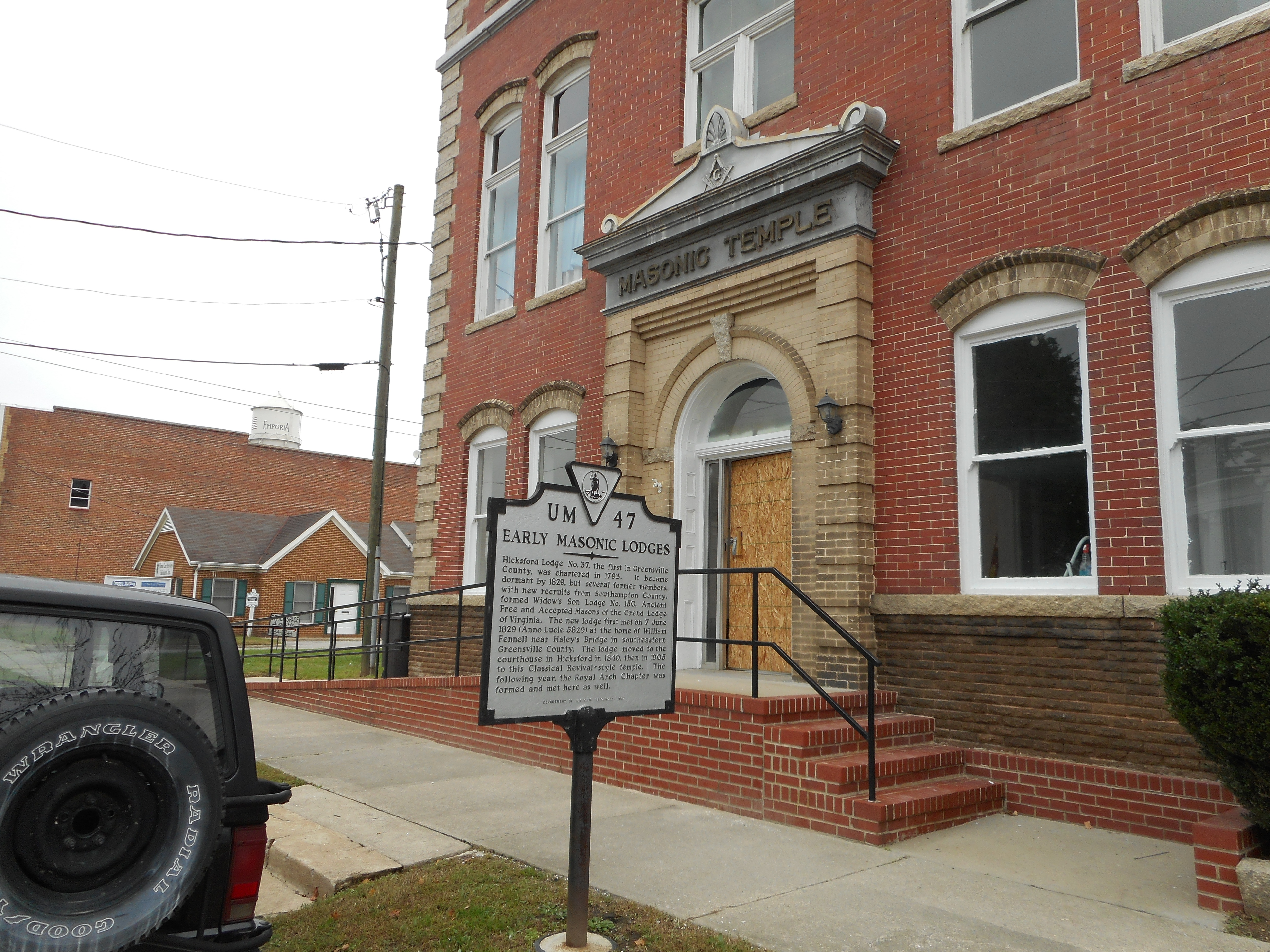 A Masonic Lodge in Emporia, Virginia, which is a contributing property to the Hicksford-Emporia Historic District; on the National Register of Historic Places.